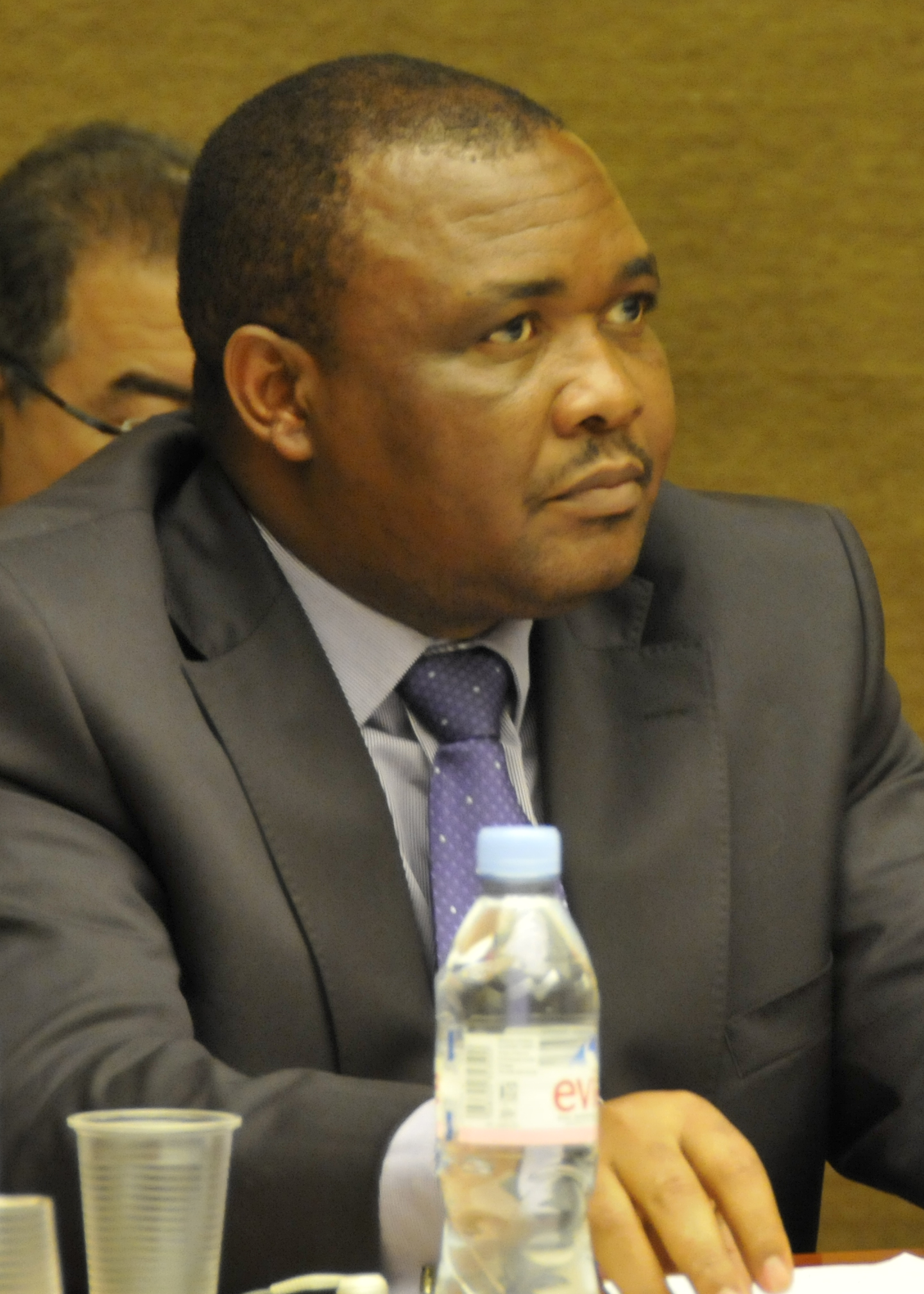 H.E. Mr. Mothetjoa Metsing, Deputy Prime Minister, Kingdom of Lesotho